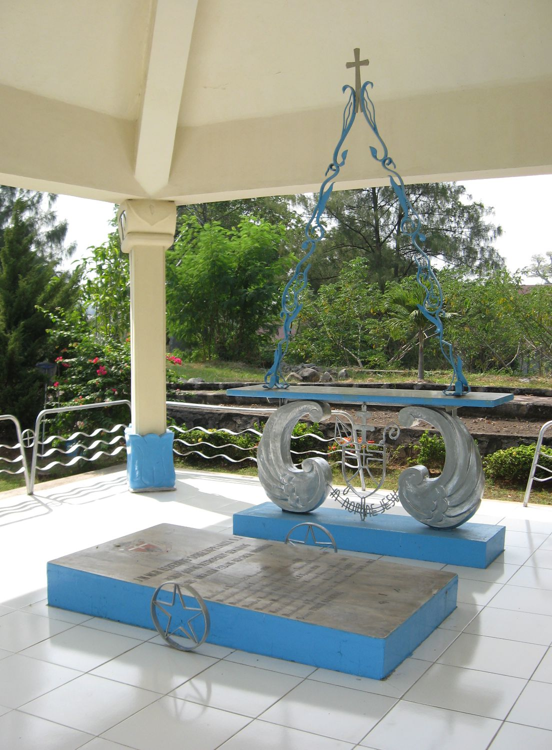 Grave of Albertus Soegijapranata